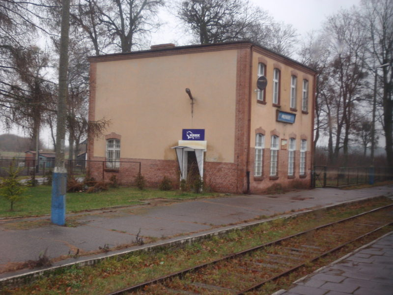 train station building in Młynary